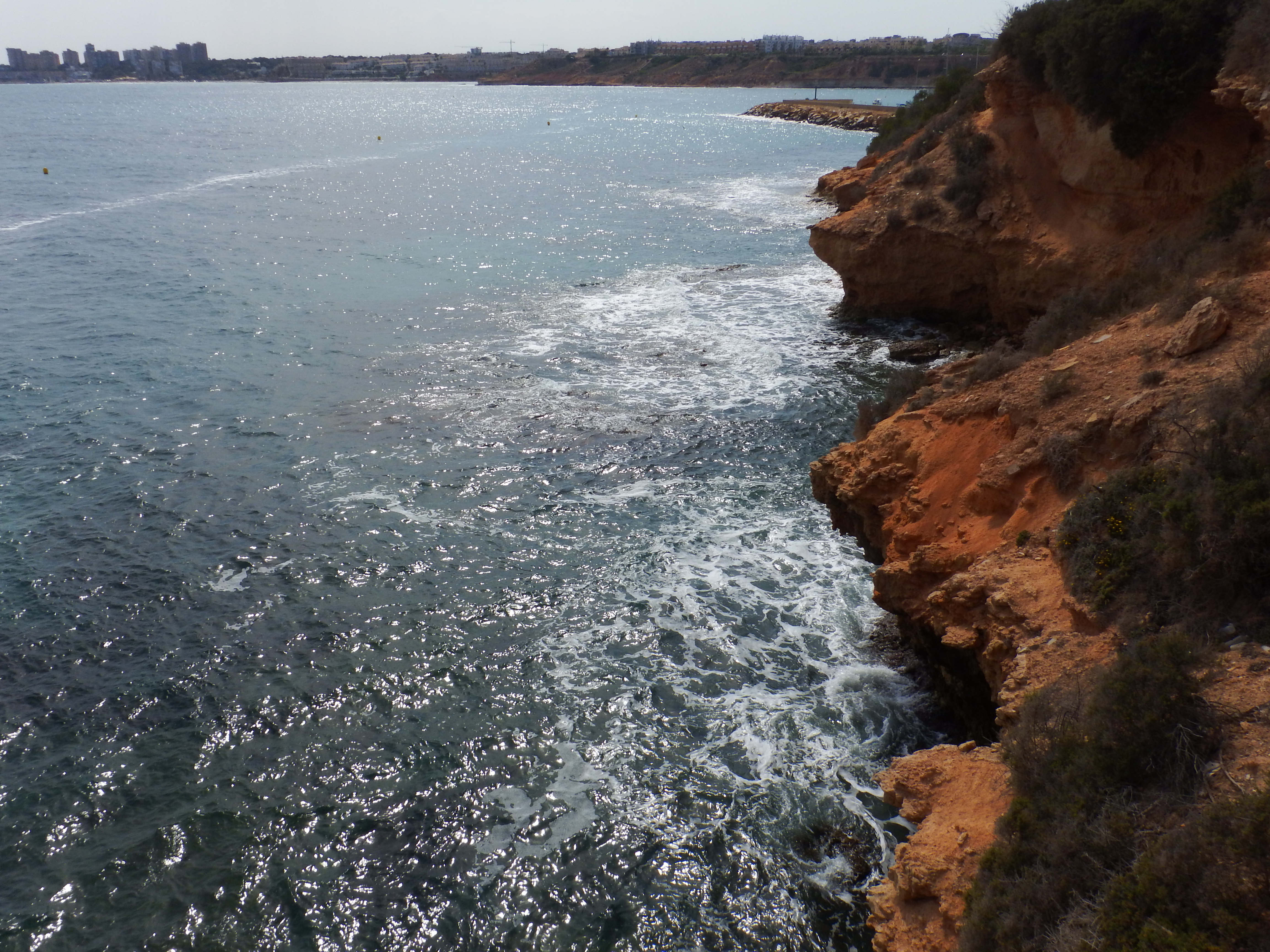 Cabo Roig (37.910695, -0.721482) Partial view of port, Cabo Roig beach and Dehesa de Campoamor This is a photography of a Special Area of Conservation in Spain with the ID: ES5213033. Natura2000 entry, EEA entry